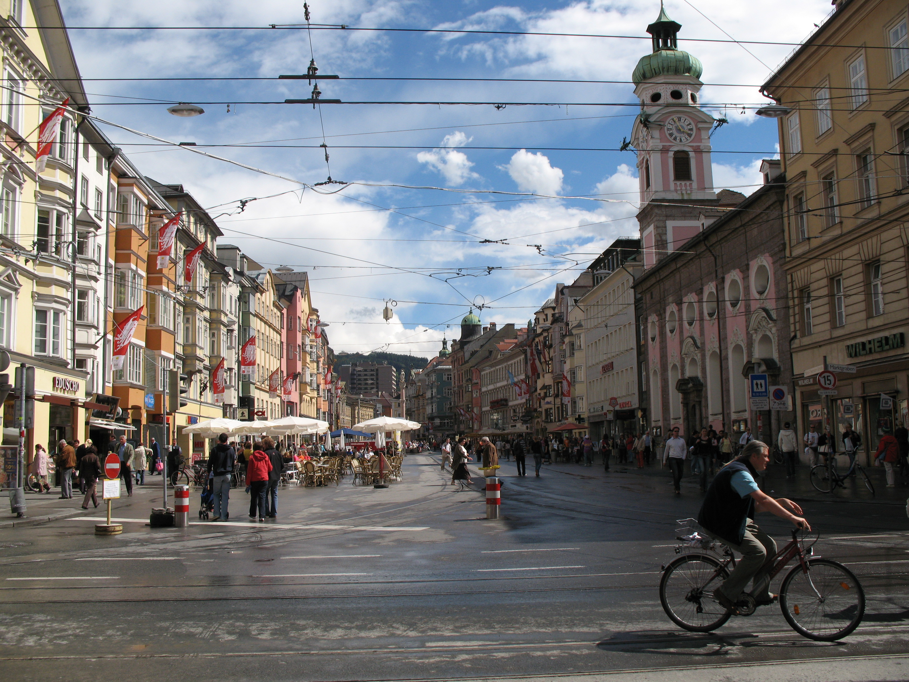 Maria Theresa Street, Innsbruck, Austria